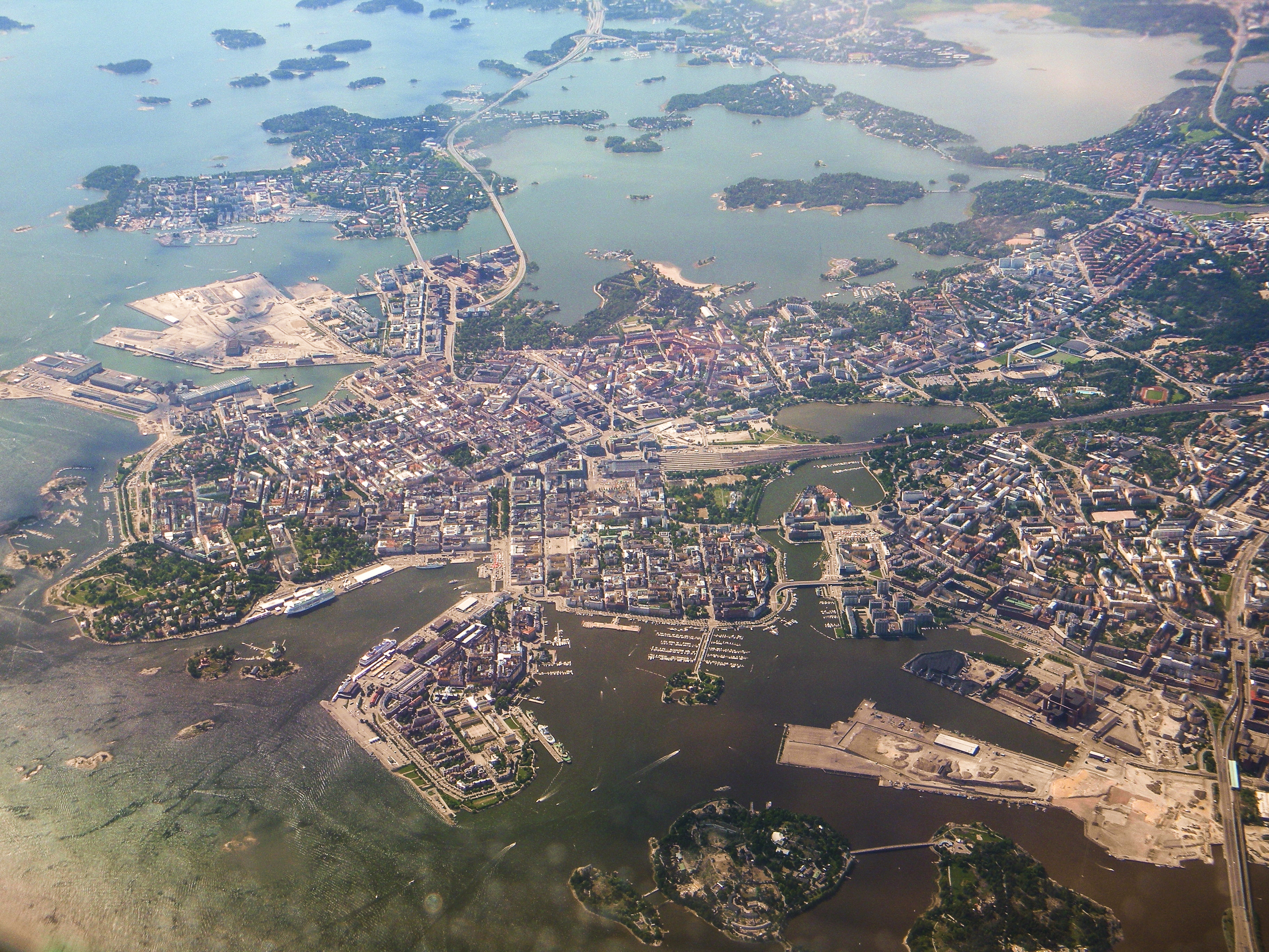 An aerial photograph of Helsinki downtown.